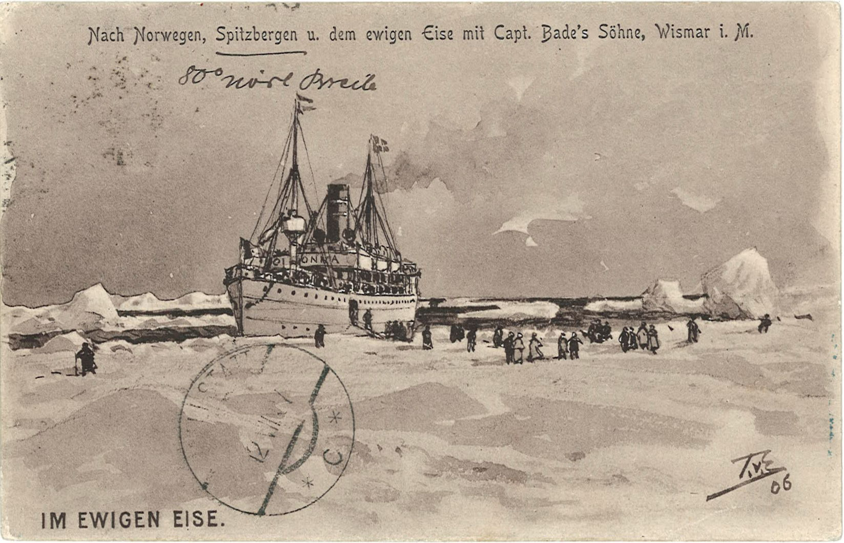 Picture postcard: SS Oihonna (Spitzbergen trip of Capt. Bade in 1907) by Themistokles von Eckenbrecher (+ 1921)